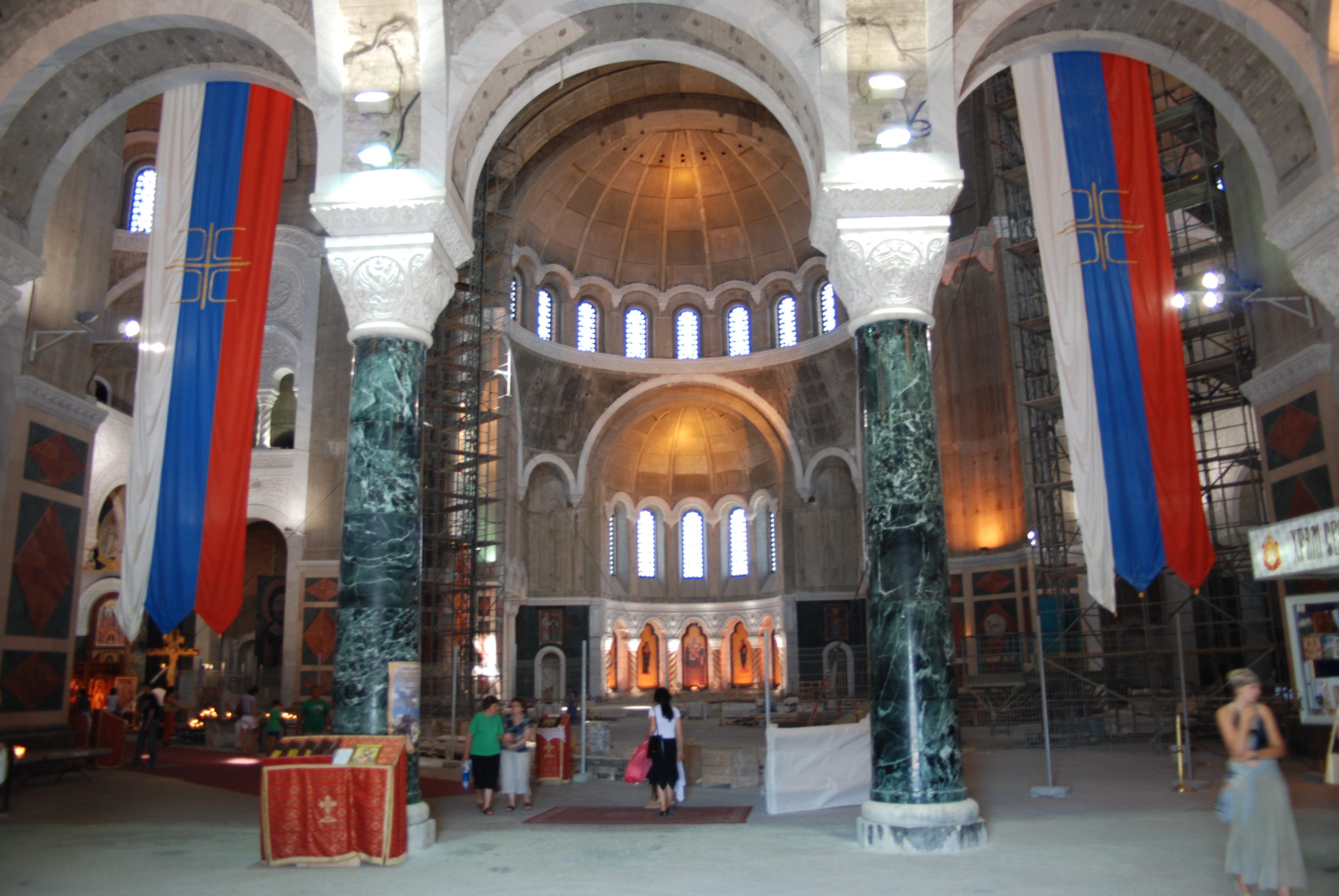 The Cathedral of Saint Sava is an Orthodox church in Belgrade, the capital of Serbia, the largest in the world. The church is dedicated to Saint Sava, founder of the Serbian Orthodox Church and an important figure in medieval Serbia. It is built on the Vracar plateau, on the location where his remains are thought to have been burned in 1595 by the Ottoman Empire's Sinan Pasha. From its location, it dominates Belgrade's cityscape, and is perhaps the most monumental building in the city. The building of the church structure is being financed exclusively by donations. The parish home is nearby, as will be the planned patriarchal building.